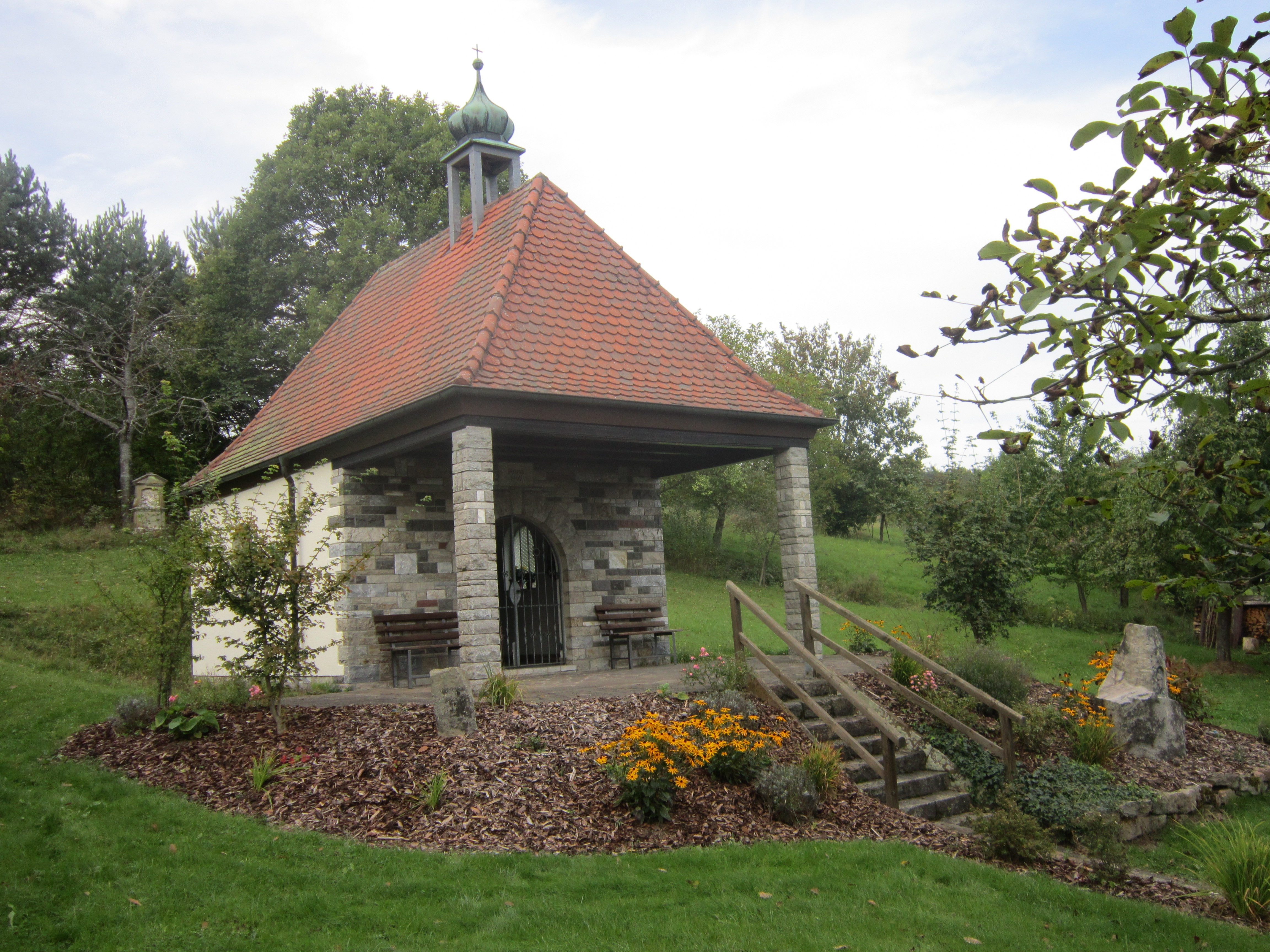 Wendelinuskapelle in Waldfenster, a quarter of the German town of Burkardroth in Lower Franconia (Bavaria).